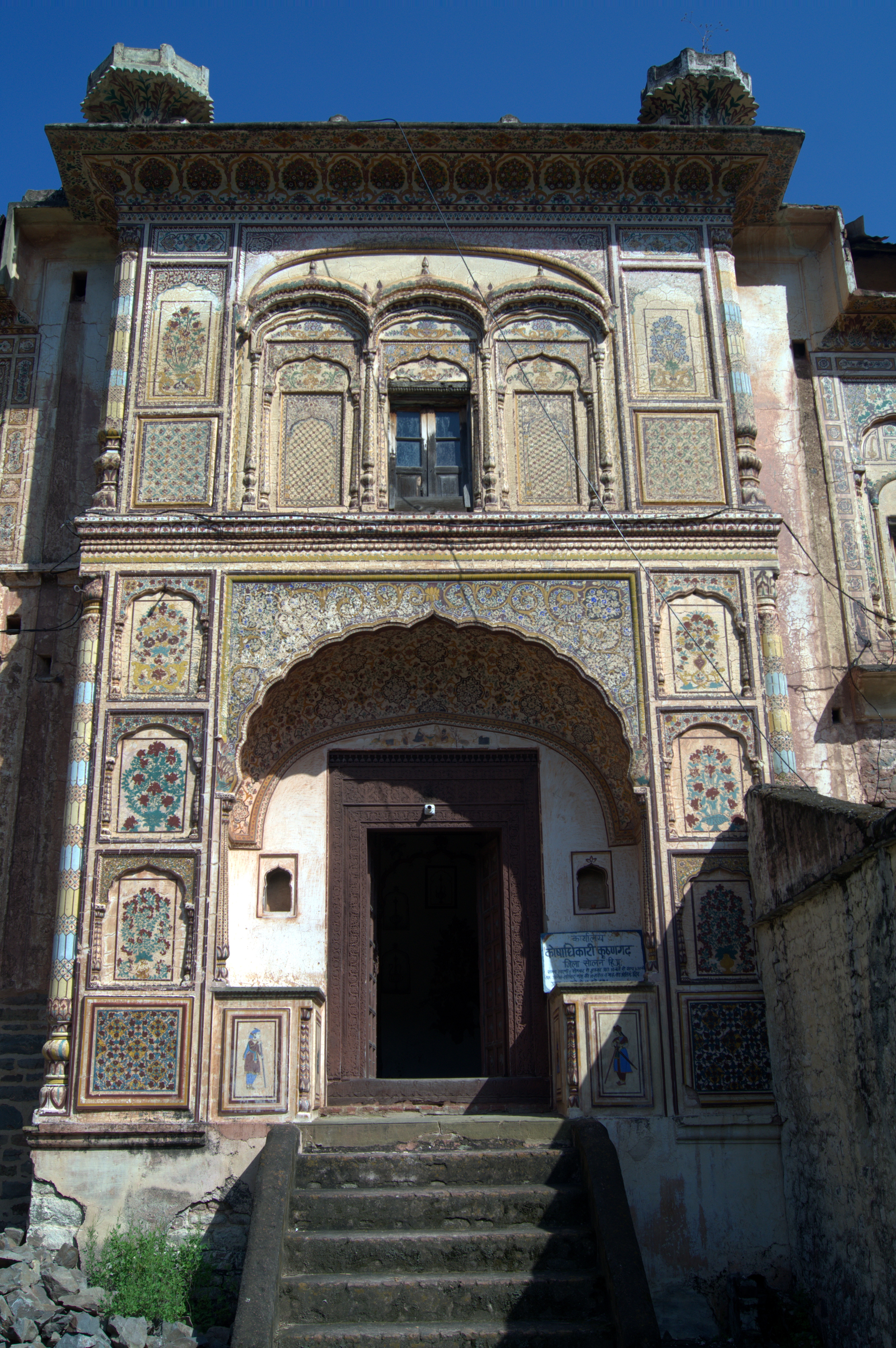 Entrance of palace of Kuthar Princely State,Himachal Prades,India